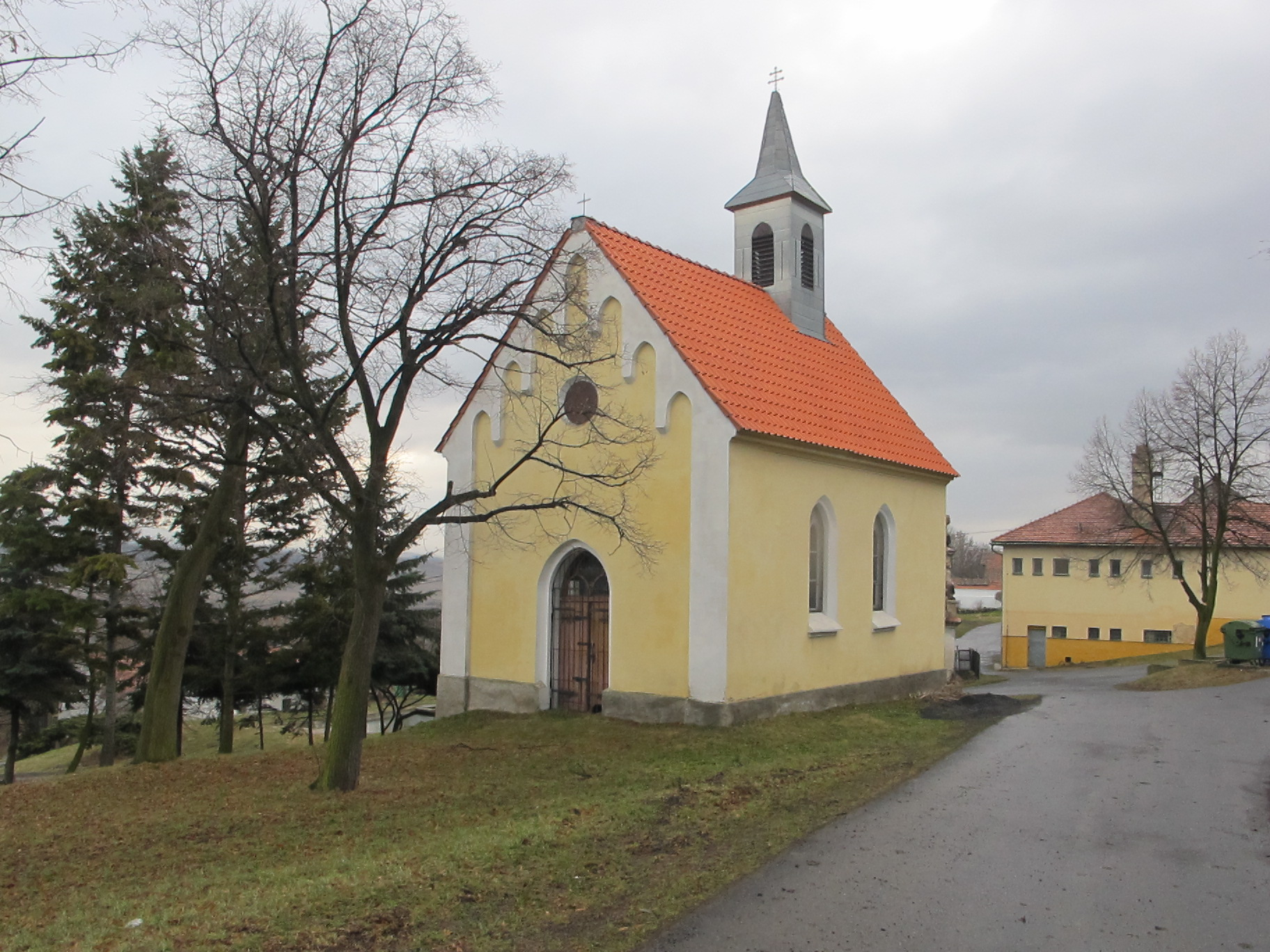 Chapel in Mnichovský Týnec